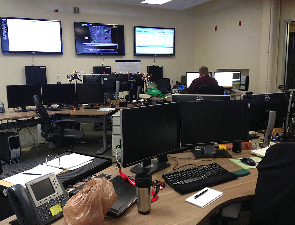 With NSF support, the NCAR-Wyoming Supercomputer Center (NWSC) in Cheyenne, Wyo., houses high performance computers, mass storage (data archival) systems and related systems and infrastructure. The center is operated by the National Center for Atmospheric Research (NCAR). The center’s flagship supercomputer, known as Yellowstone, has the ability to work at 1.5 petaflops, equal to 1.5 quadrillion (a million billion) mathematical operations per second. This is the supercomputer’s command center. Find out more about NSWC at . Credit: Karen Pearce, NSF